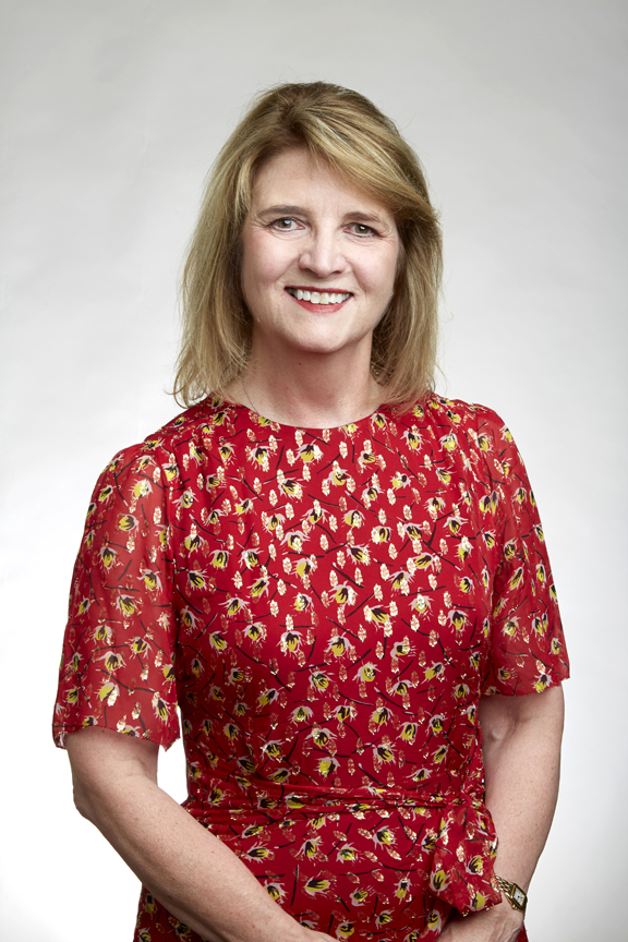 Angela Rosemary Emily Strank is head of downstream technology and chief scientist of BP, responsible for technology across all the refining, petrochemicals, lubricants and fuels businesses. Attribution: The Royal Society